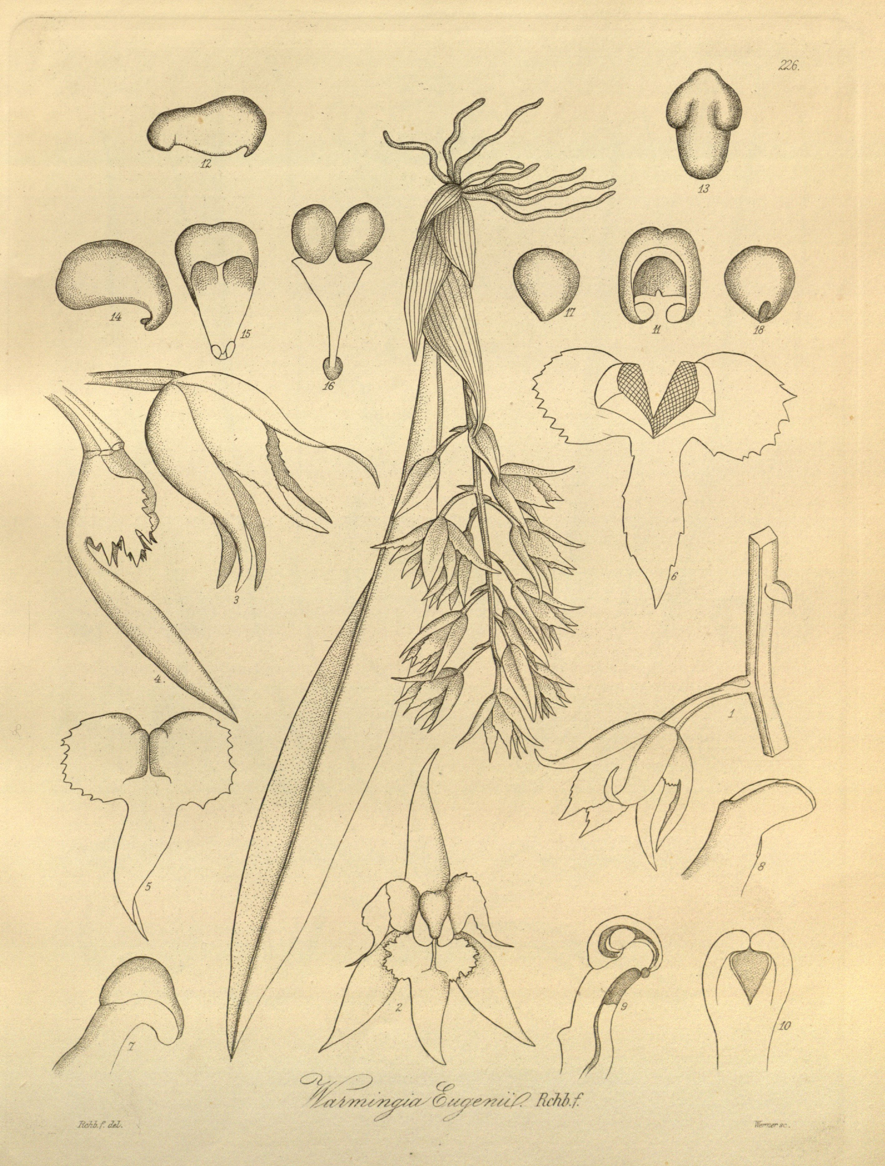 Illustration of Warmingia eugenii